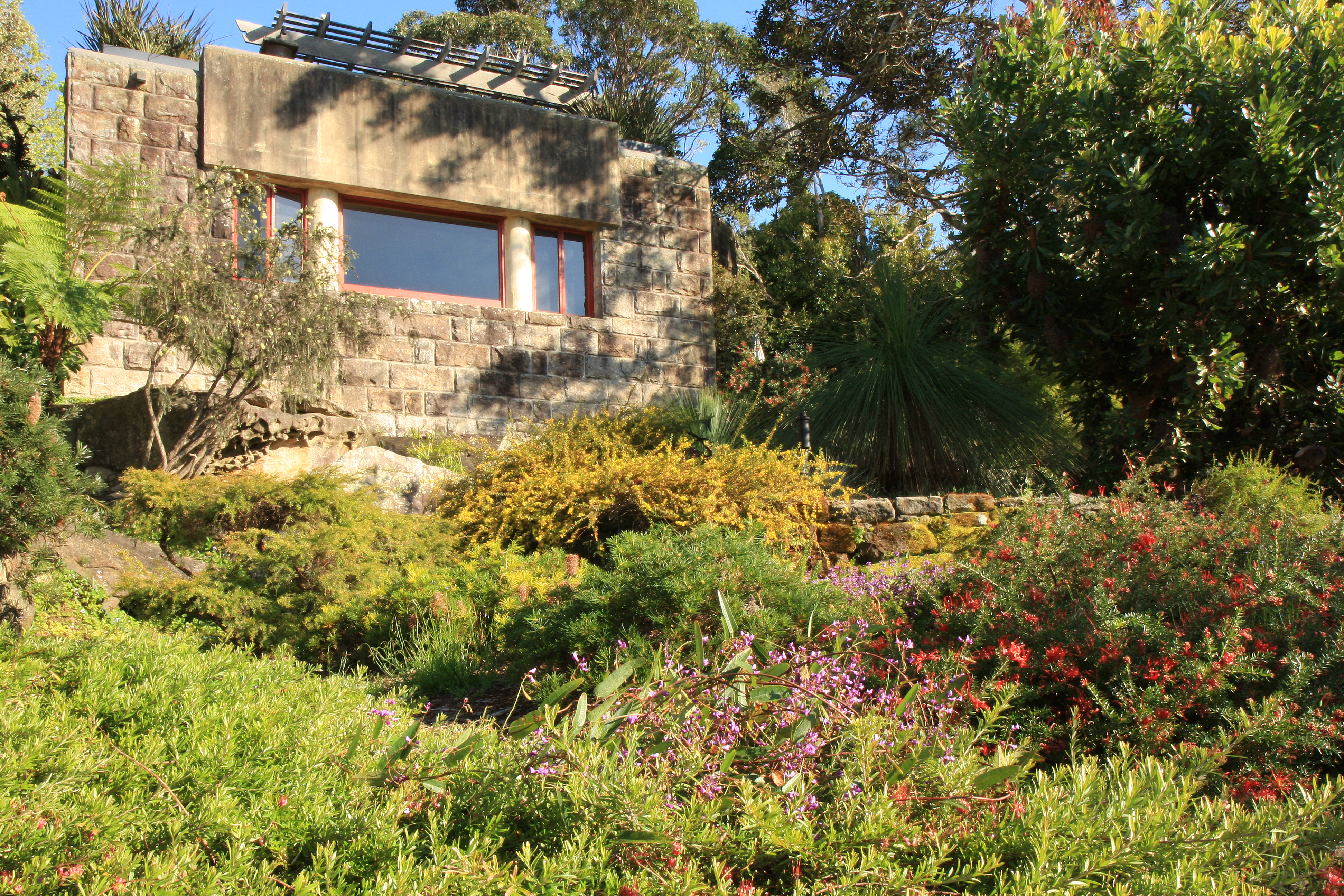 The house's lounge room has a "picture window" - most unusual in the 1920s - providing an expansive view across bushland of an arm of Sydney's harbour and the distant Pacific Ocean.